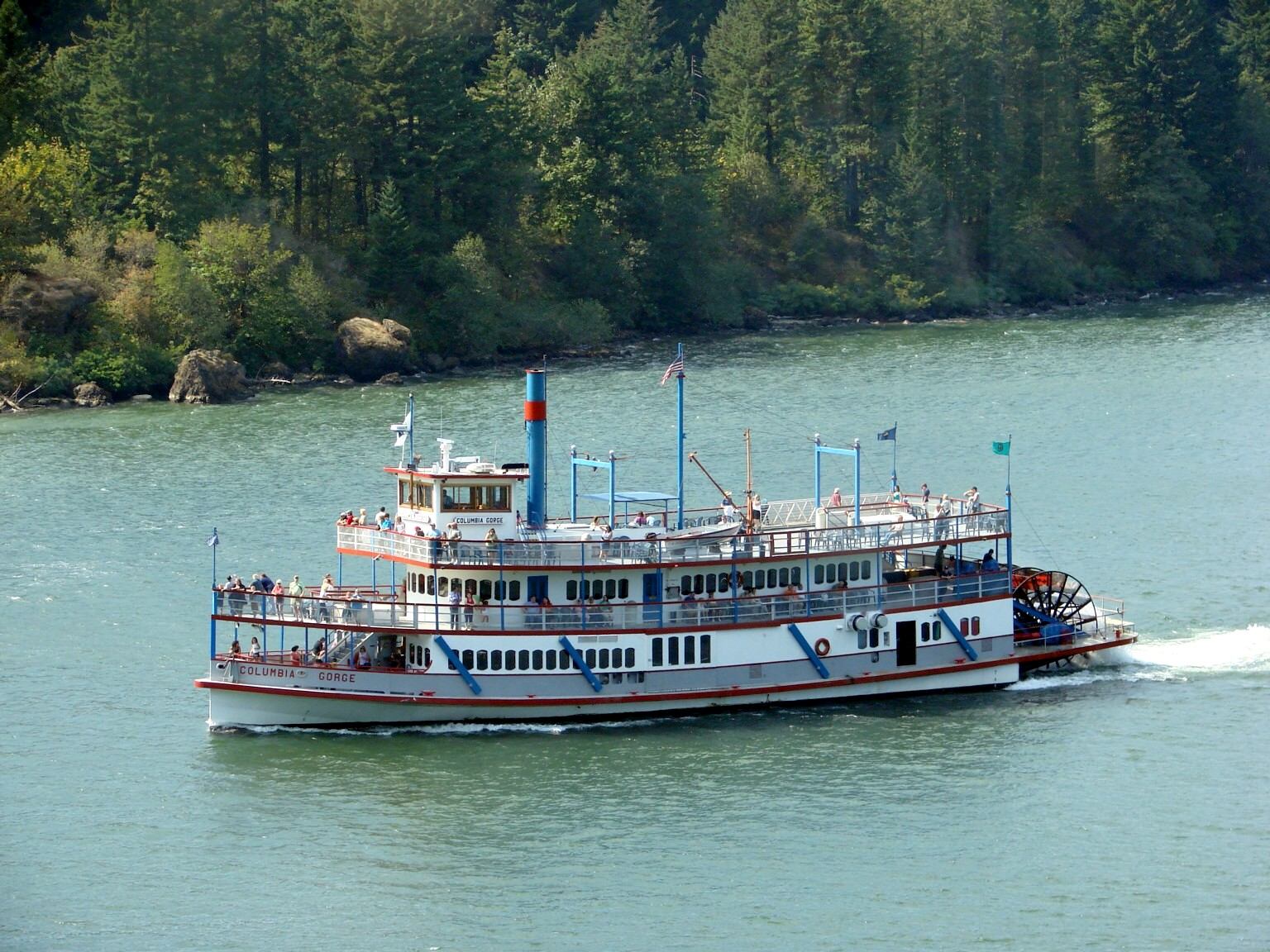 The mighty paddle wheeler, The Columbia Gorge, takes tourists back down the Columbia River after a cruise upstream. This picture is taken just east of The Bridge of the Gods at Cascade Locks, OR.